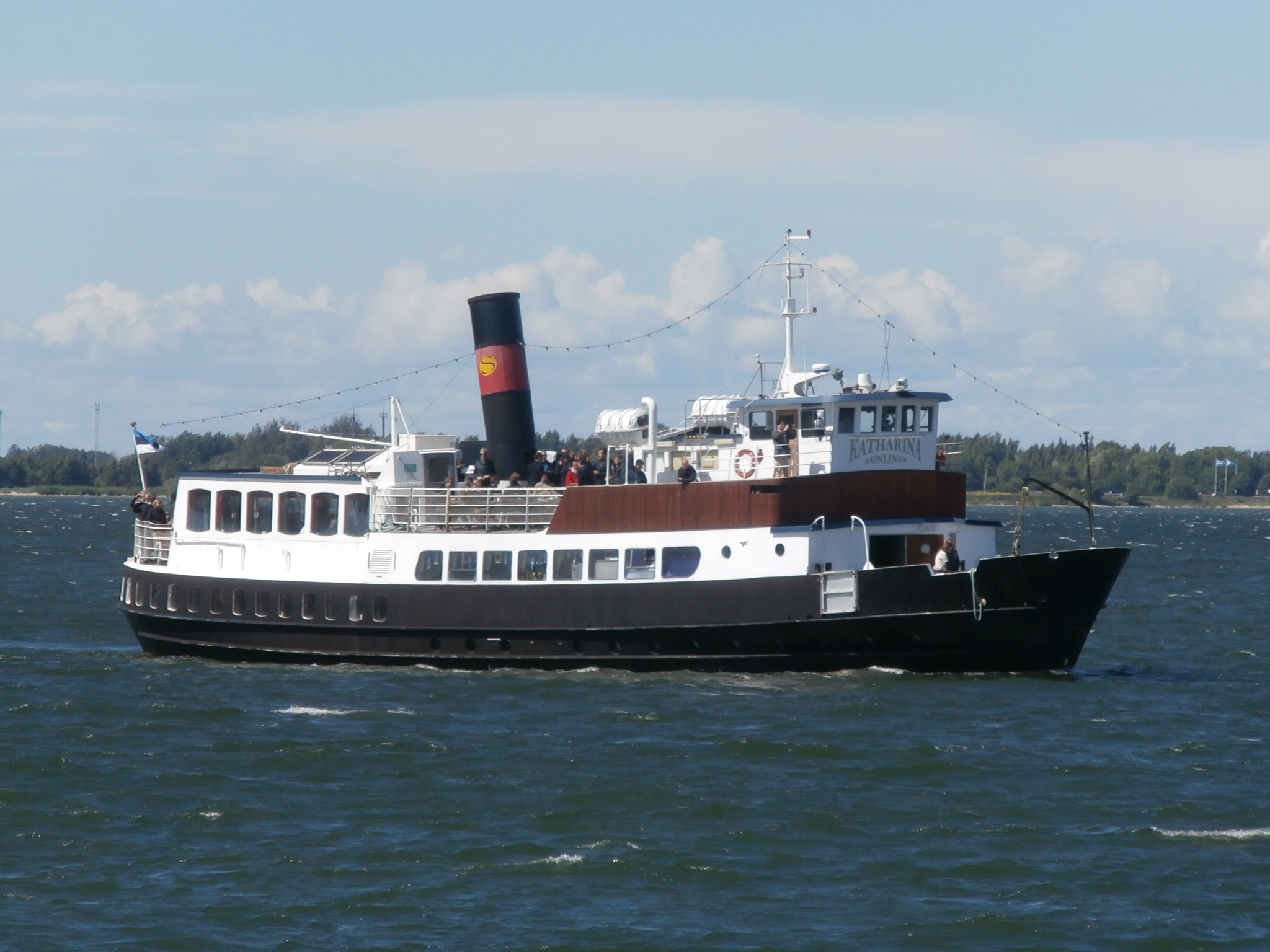 Katharina in Tallinn Bay, Tallinn 22 June 2017